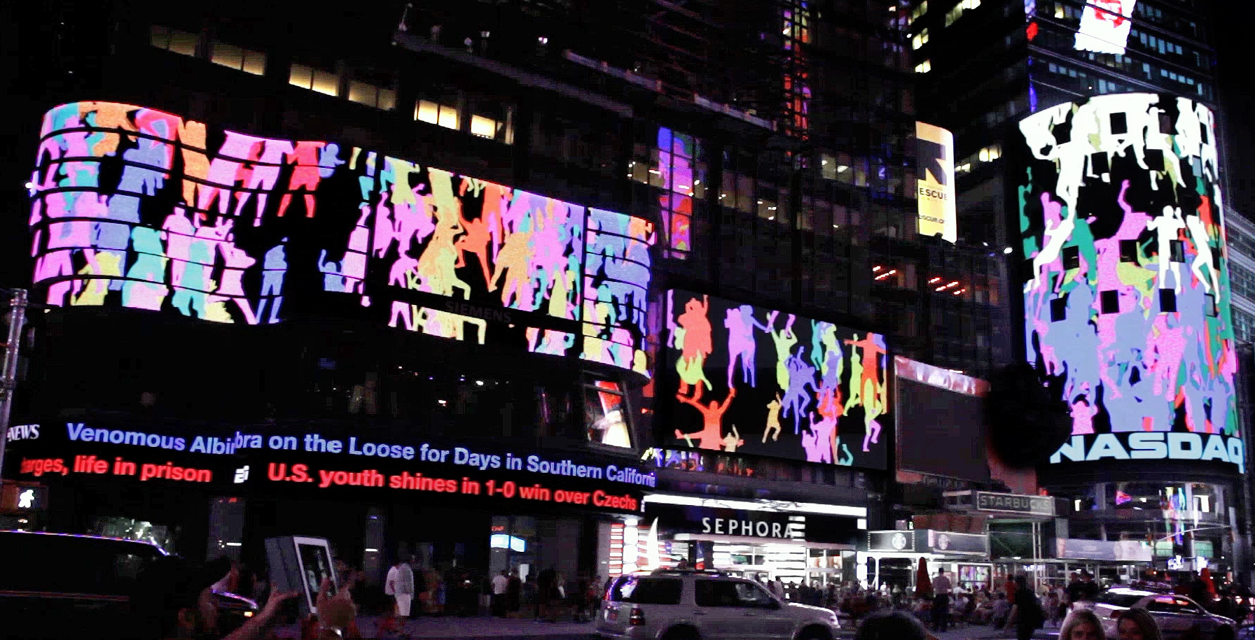 The projection of the work "Storming Times Square" by Daniel Canogar in September of 2014, Times Square, New York.